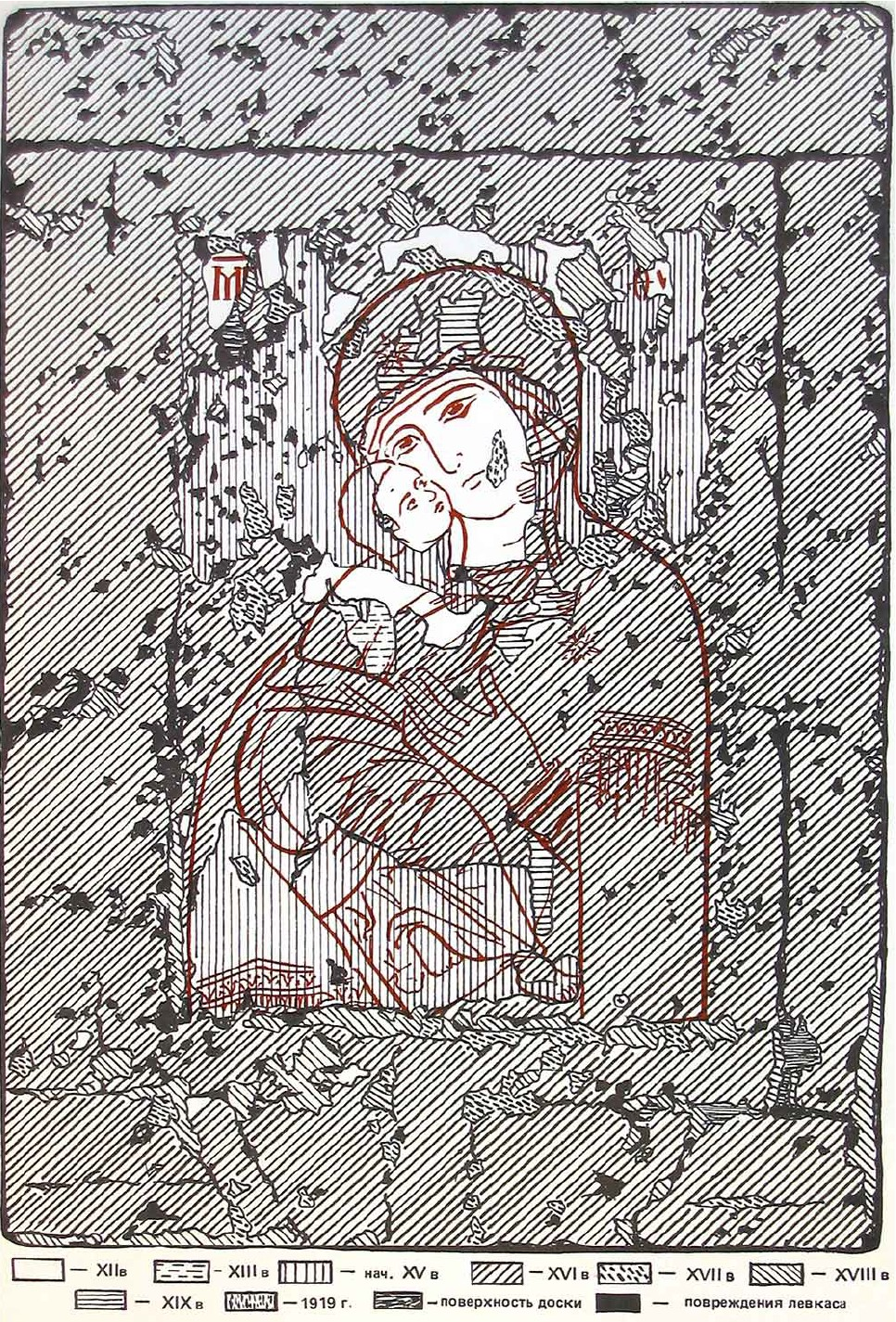 Damage to and restoration of Our lady of Vladimir icon, as detailed by A.I. Anisimov